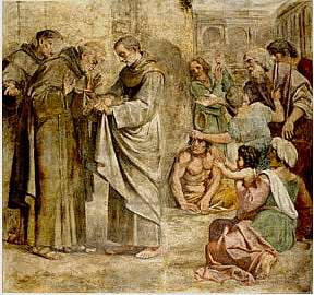 Didacus of Alcalá at the church of San Giacomo degli Spagnoli in Rome